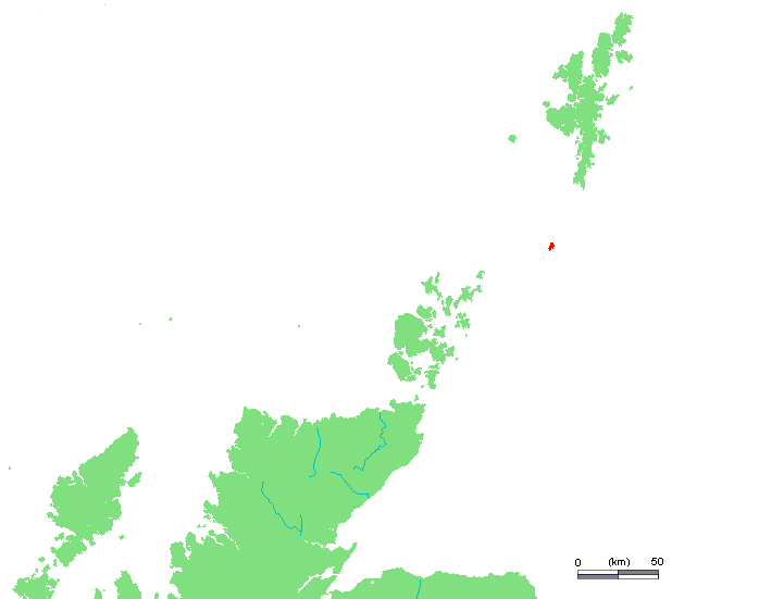 VK Fair Isle.PNG (Orkney and Shetland islands, UK)